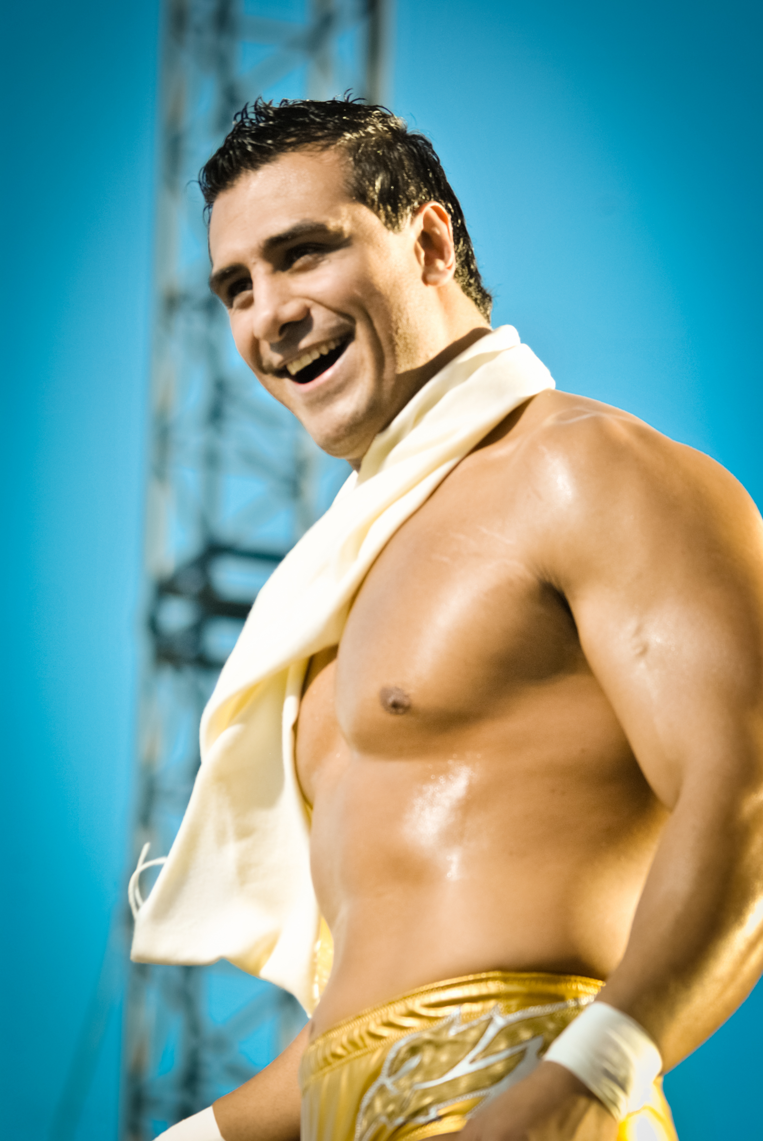 Alberto Del Rio at WWE's 2010 Tribute to the Troops show in Fort Hood, Texas on Dece,ber 11, 2010.